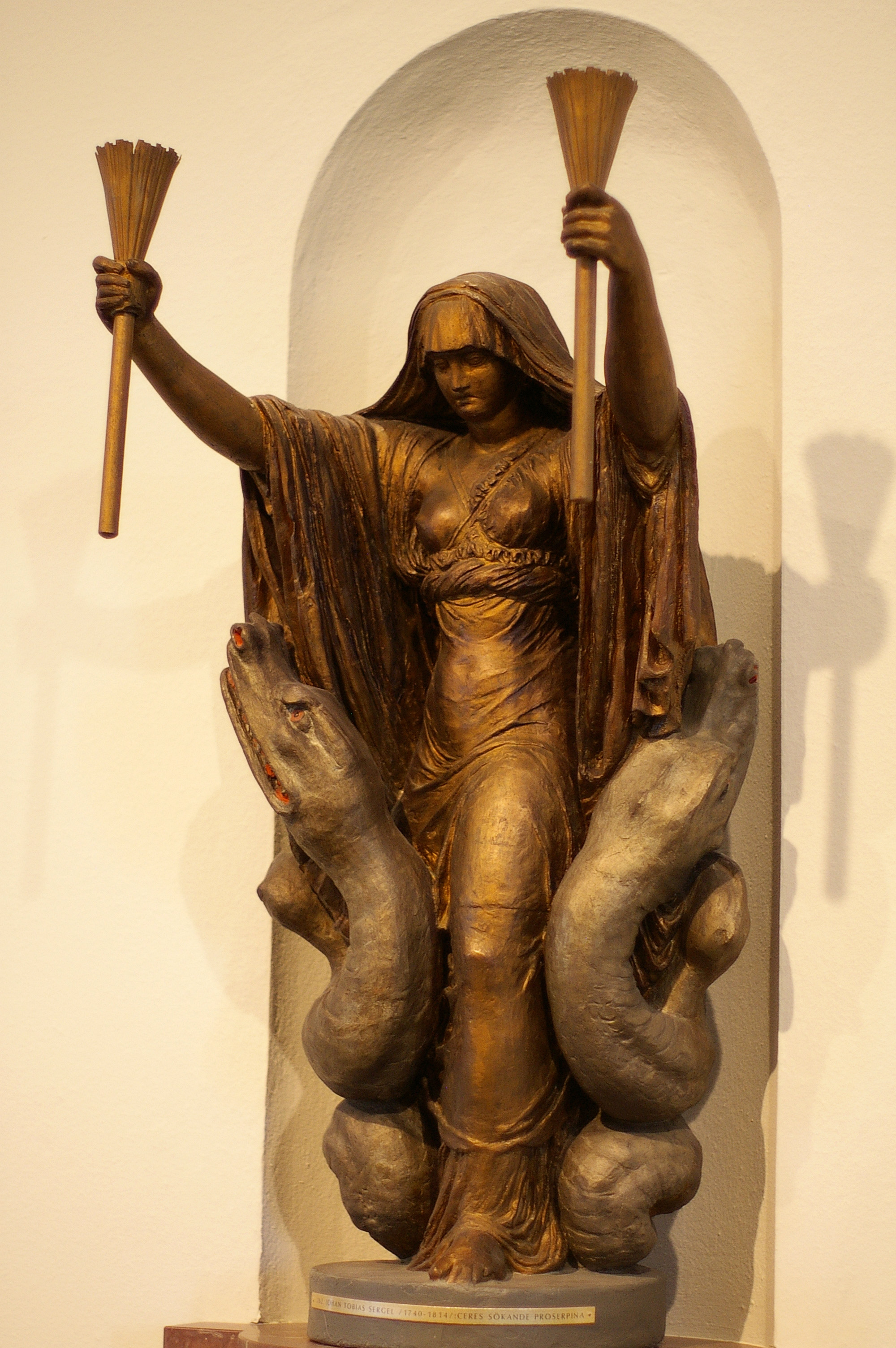 This is a photo of an artwork at the Gothenburg Museum of Art in Sweden with the identifier: 282